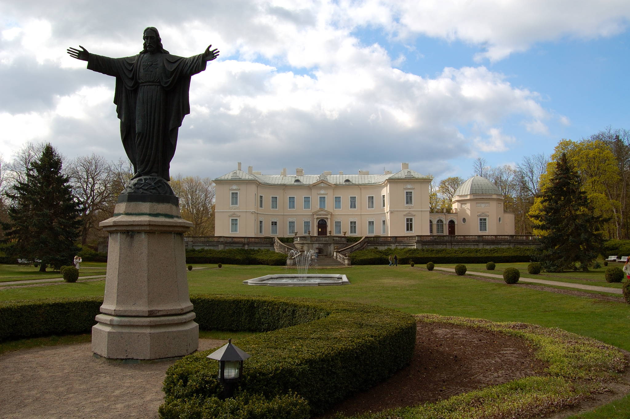 The Summer Palace of Tyszkiewicze Family in Palanga, Lithuania